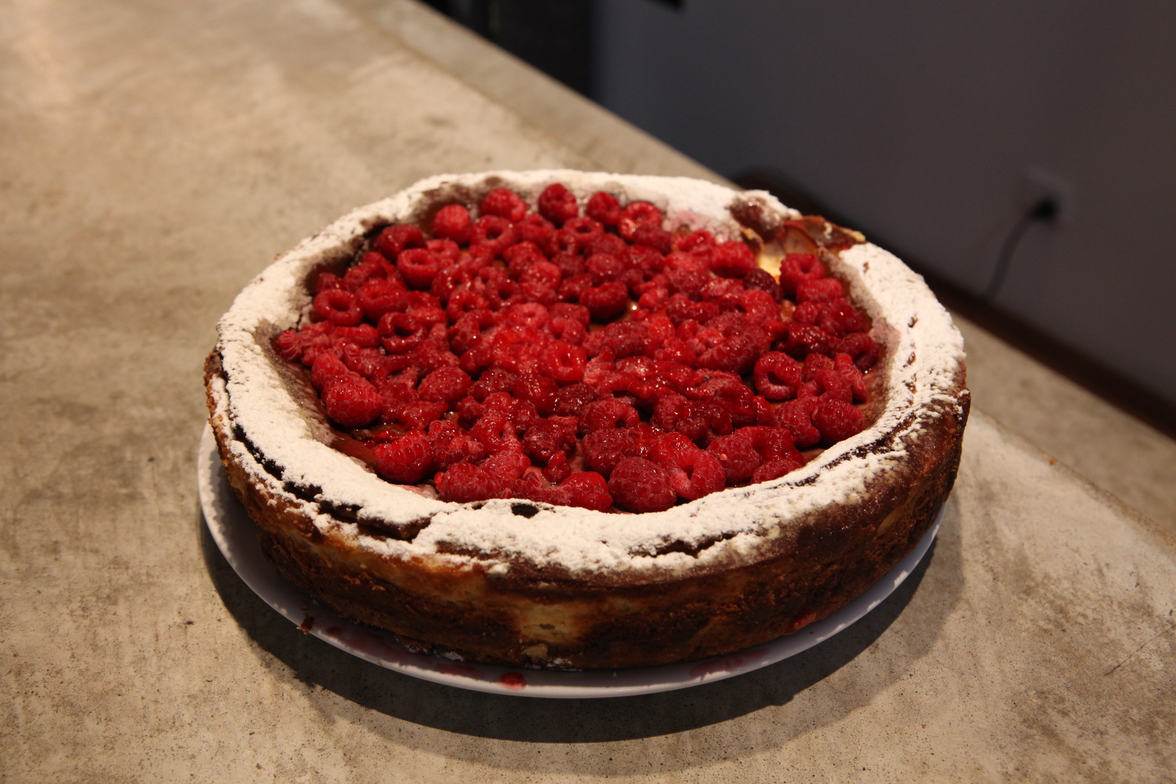 Baked American raspberries cheesecake from homemade at home